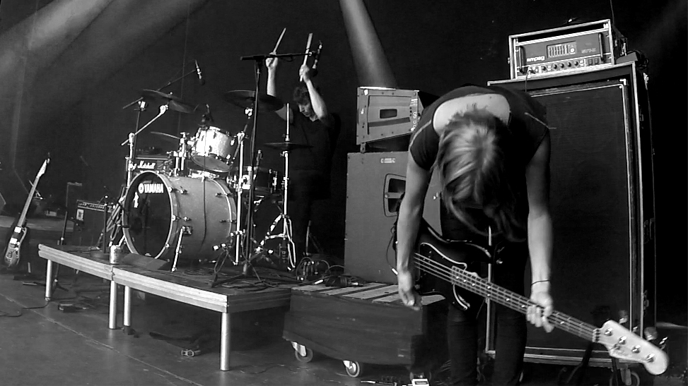 Kolbacken live at Gävle Stadsfest, 2016.